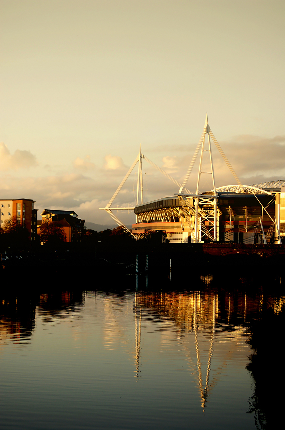 Photo of Millennium Stadium in Cardiff, Wales.